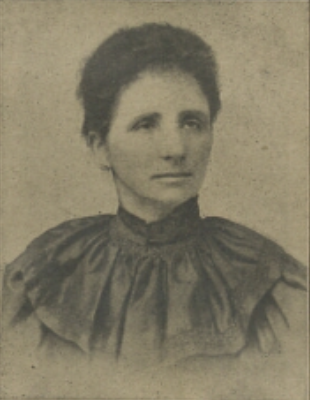 Michalina Stefanowska *(1855-1942), Polish scientist and the second woman member of the Polish Academy of Learning.